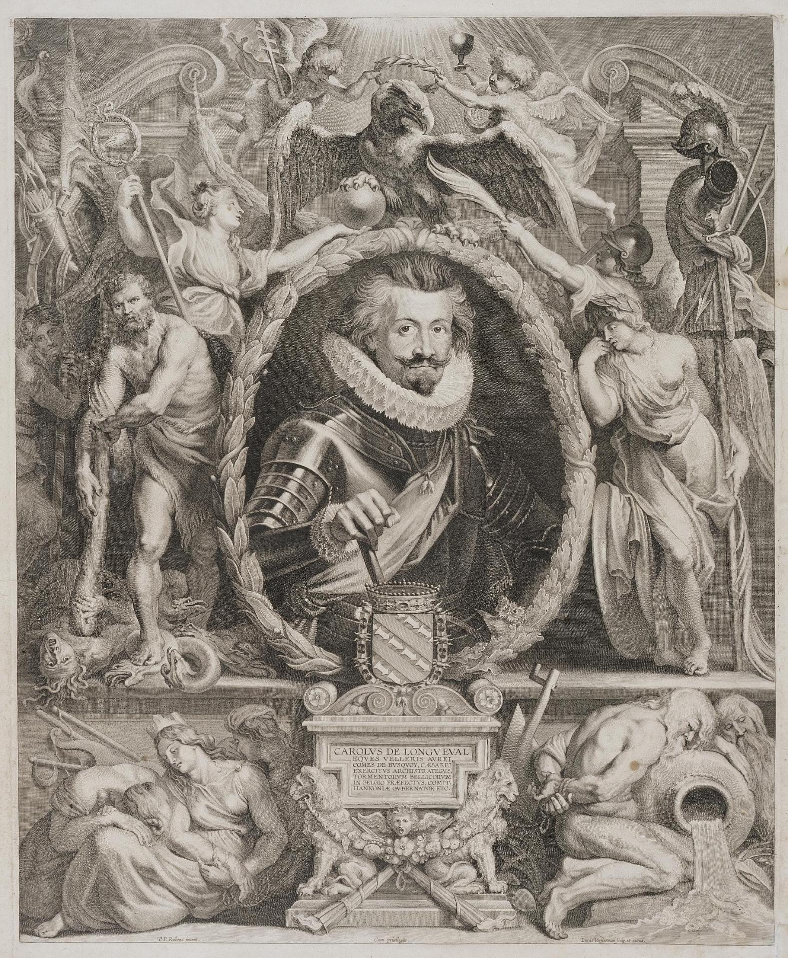 Portrait of Charles de Longueval